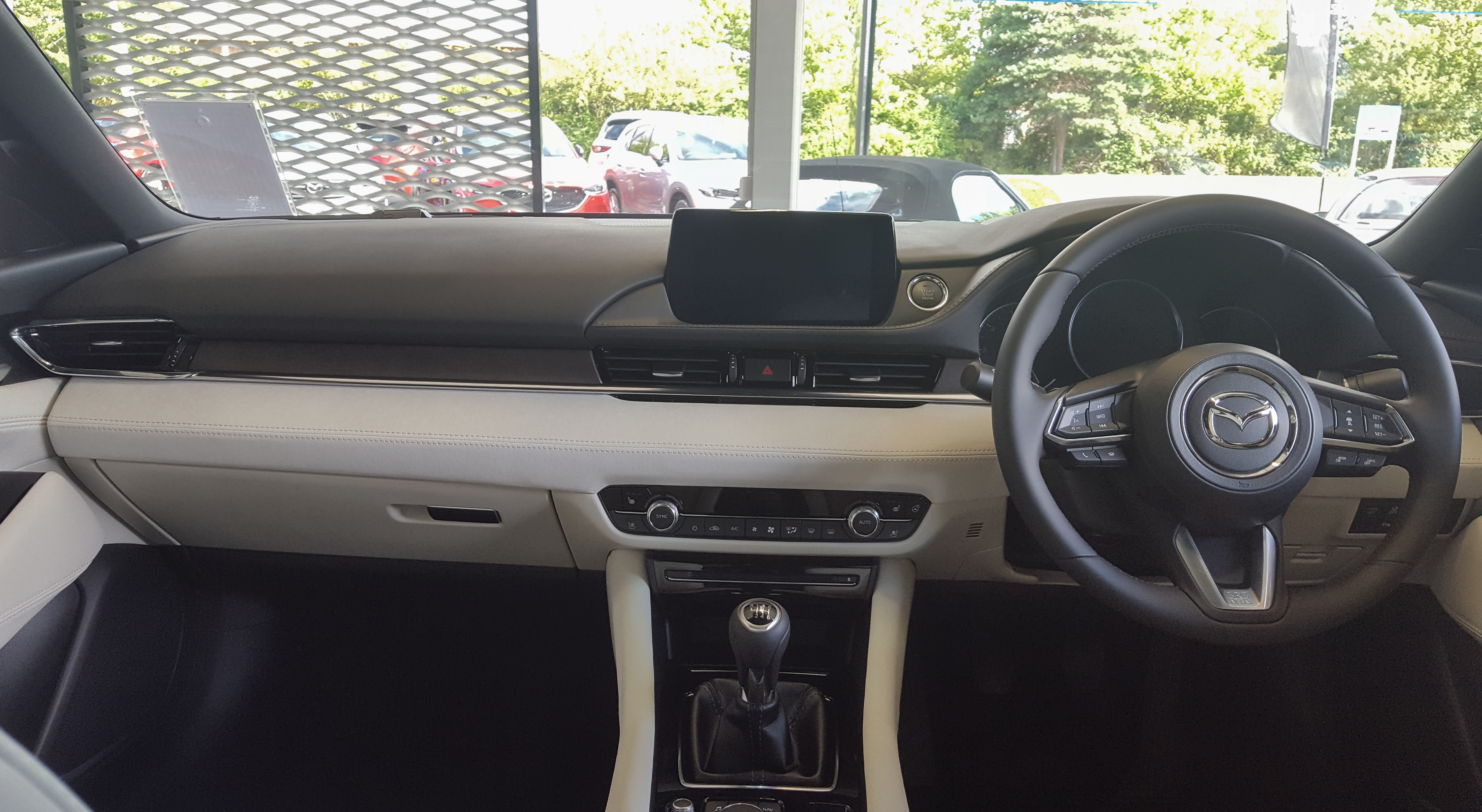 2018 Mazda6 facelift Interior